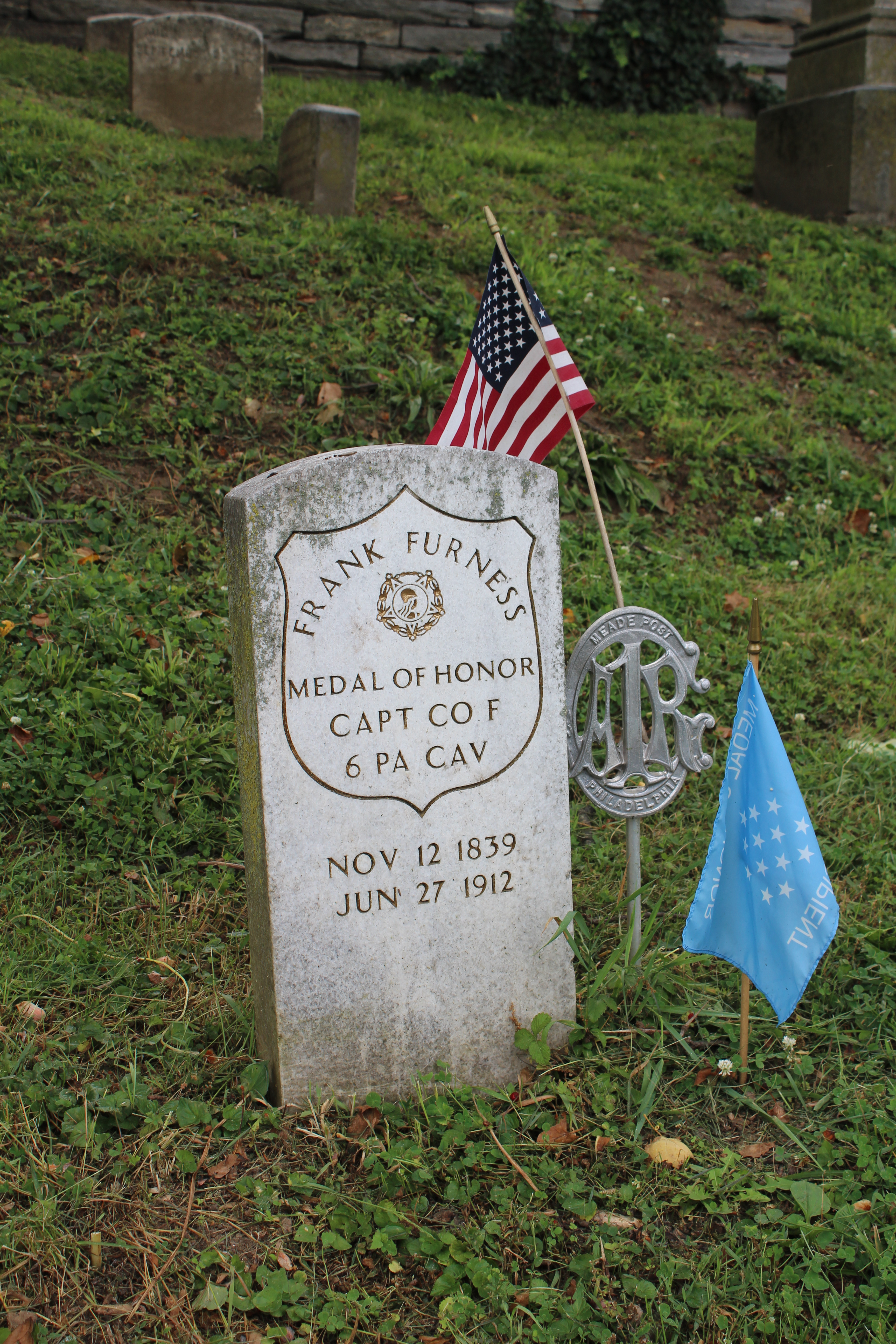 Frank Furness tombstone in Laurel Hill Cemetery. Photo taken June 2020.